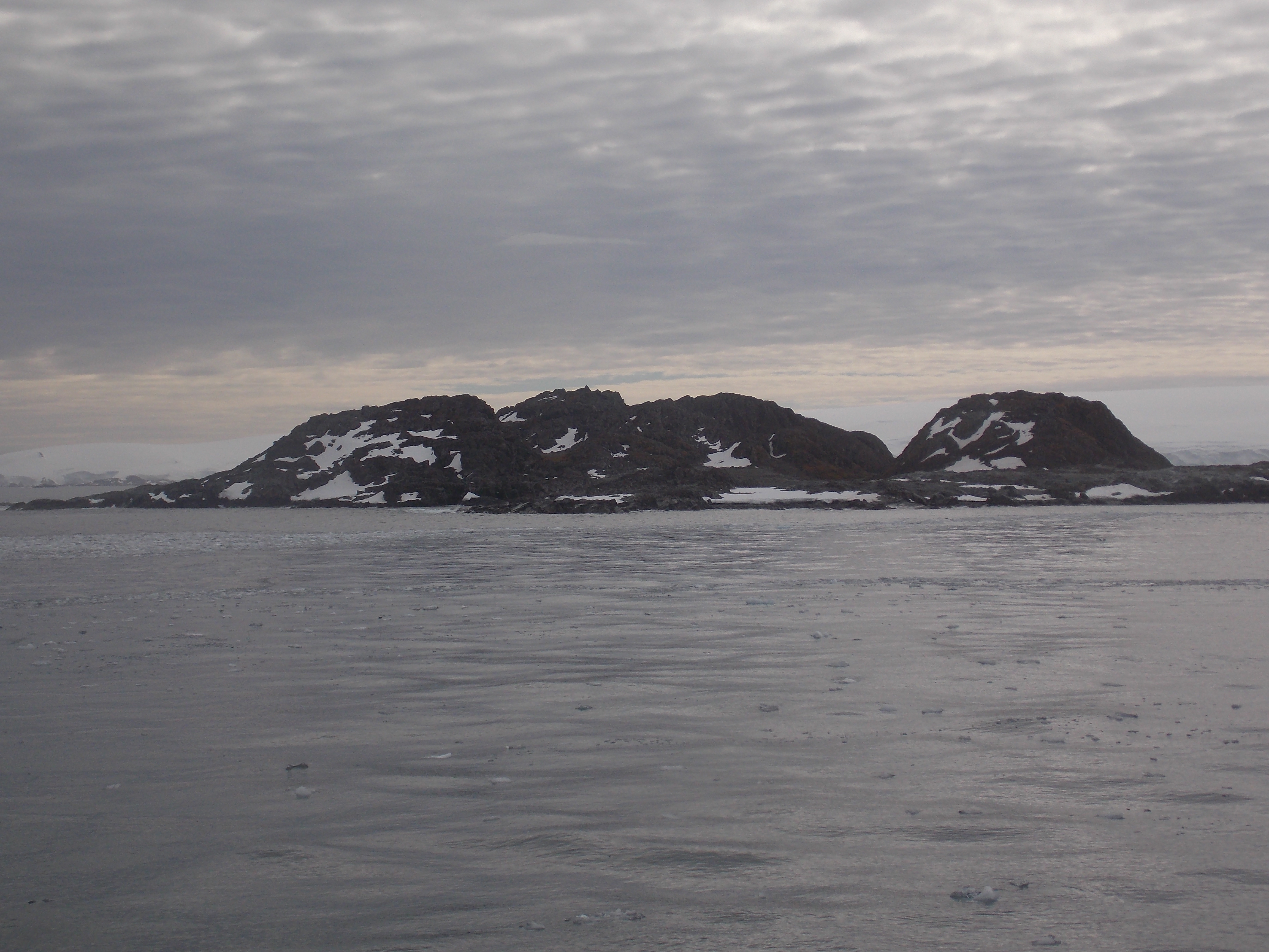 Arthur Harbor, Anvers Island, Palmer Archipelago